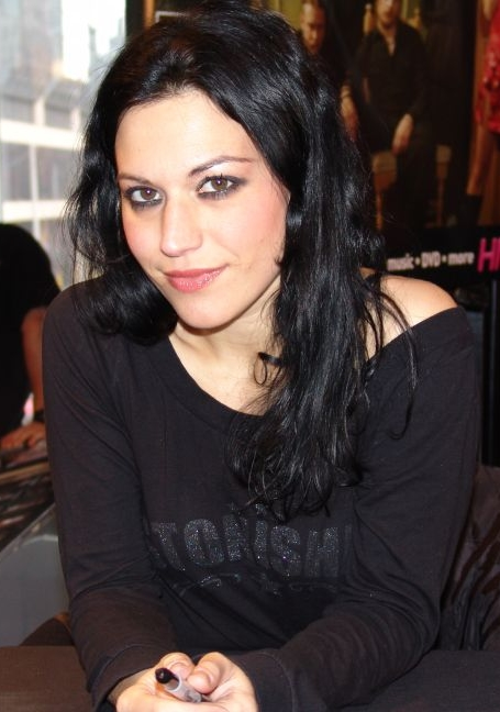 Cristina Scabbia, Apr. 4, 2006. HMV superstore, CD release party. Taken with a Sony DSC-F828 by Dylan Madeley. [cropped from original version to better show subject]